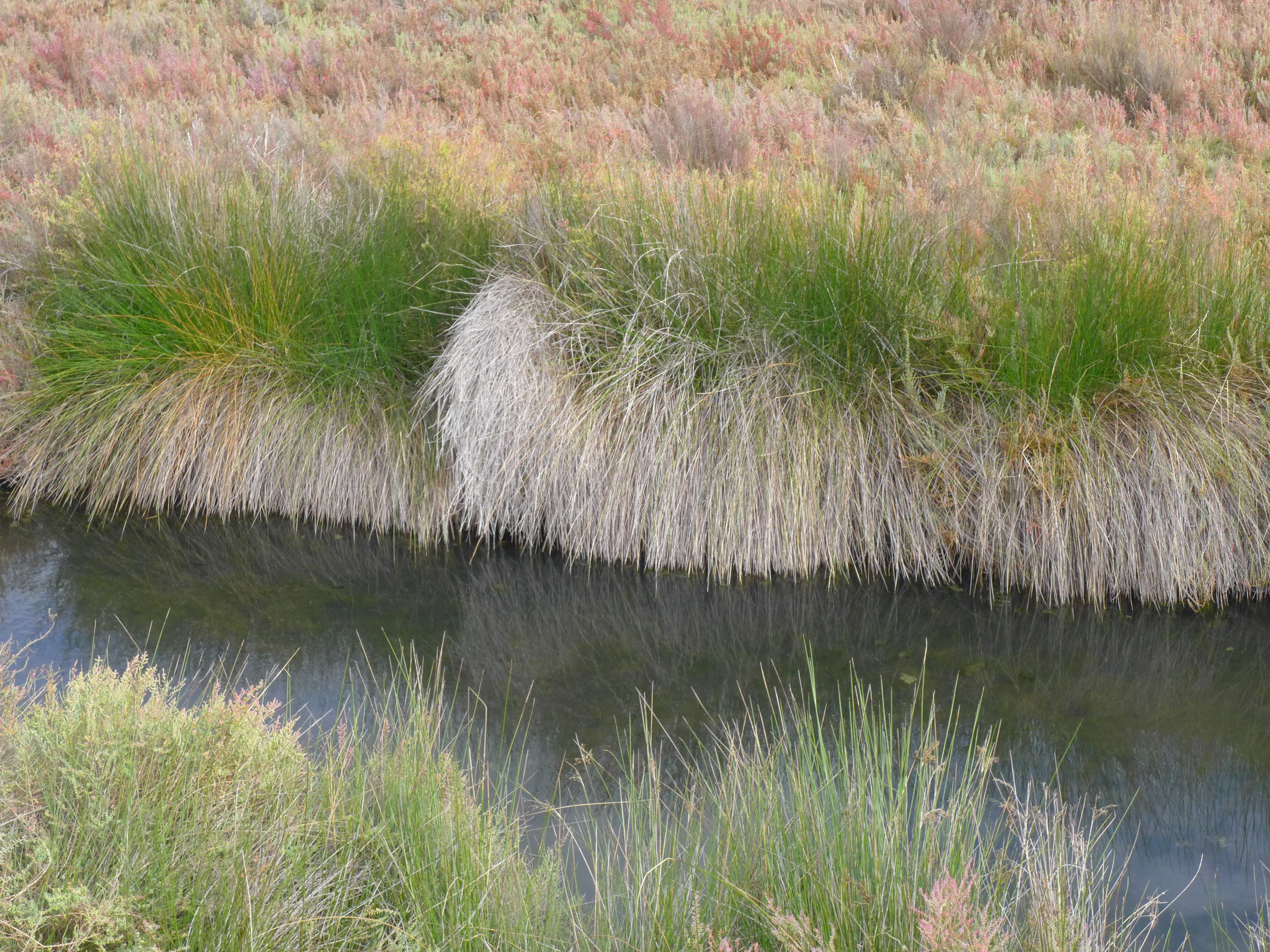 Alvor Nature Reserve, Alvor, Portugal October 2016 Estuary and marsh Plants include: Atriplex (saltbush,orache), Suaeda fruticosa (shrubby seablight), Salicornia europaea (glasswort), Sarcocornia sp. (samphires, saltworts), Suaeda maritima (annual seablite), Suaeda sp. Salsola soda (saltwort), Salsola sp., Halimione portulacoides (sea purslane) , Spartina maritima (small cordgrass), Zostera noltei (dwarf eelgrass) , Beta, Sonchus, Juncus.